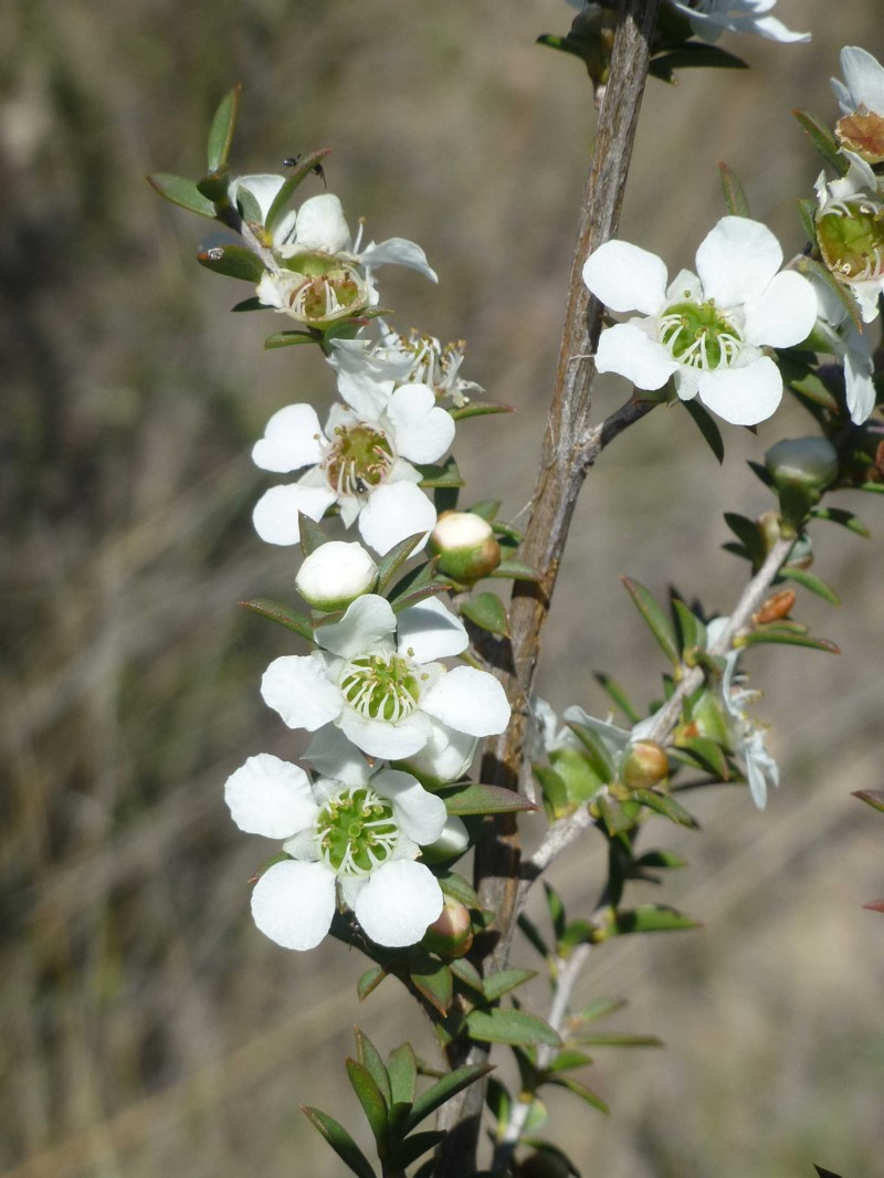 Leptospermum continentale on Black Mountain, Australian Capital Territory